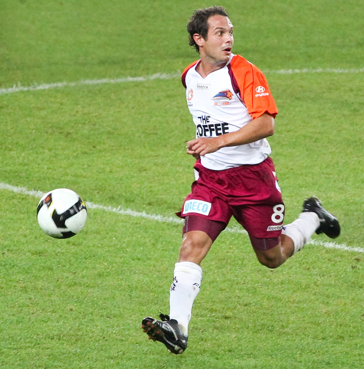 Massimo Murdocca playing against Sydney FC in round 7 of the 08-09 A-League